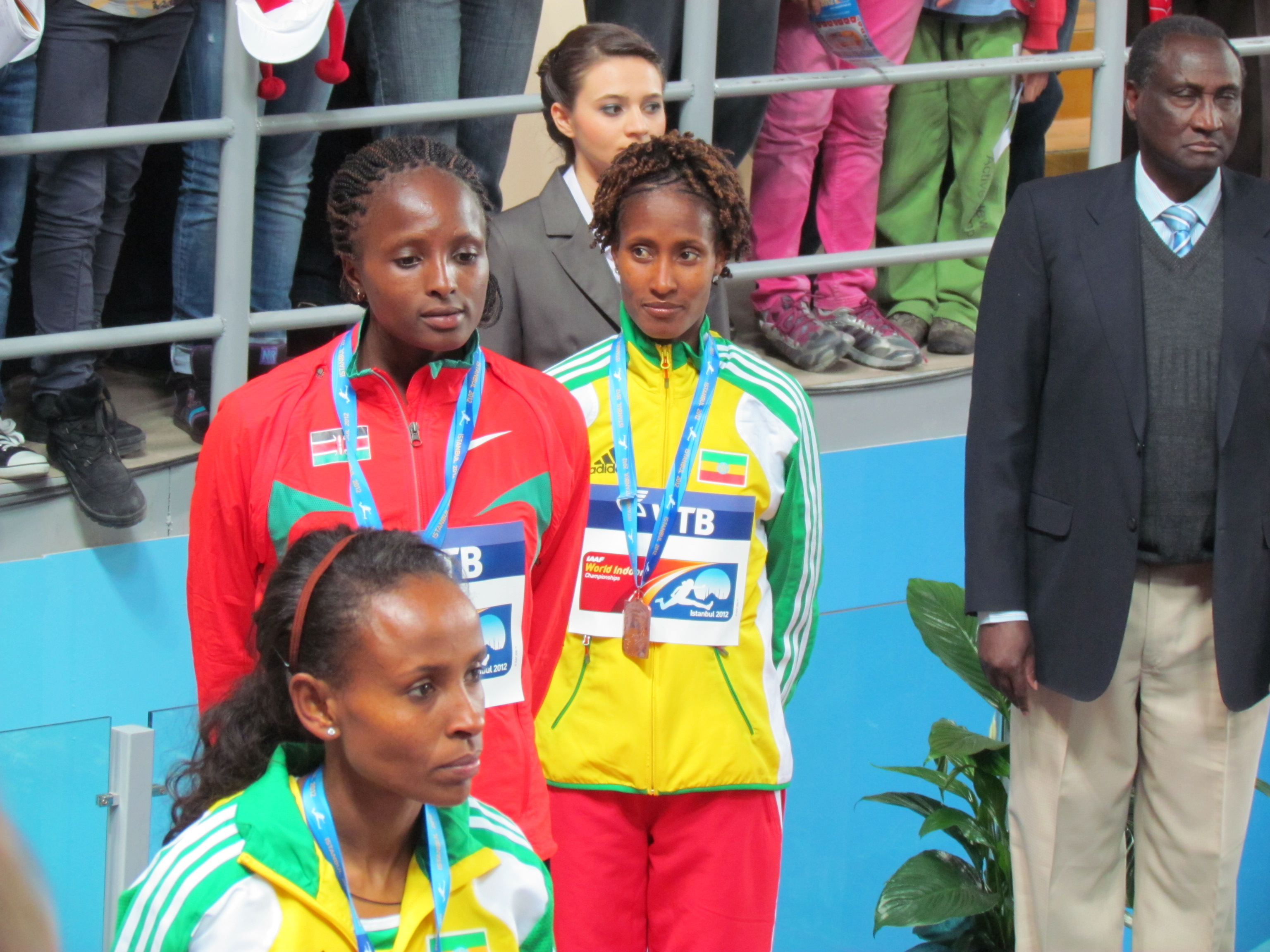 The 2012 IAAF World Indoor Championships in Athletics was the 14th edition of the global-level indoor track and field competition and was held between March 9–11, 2012 at the Ataköy Athletics Arena in Istanbul, Turkey. Meseret Defar, Hellen Onsando Obiri, Gelete Burka